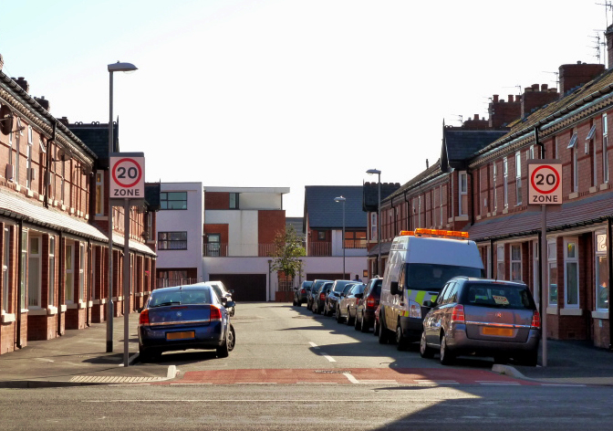 Wykeham Street in Moss Side with Maine Place in background. Maine Place is the new development on the site of the former Manchester City F.C. football ground.